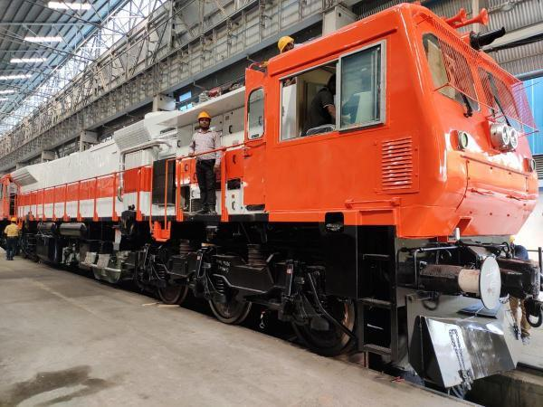 It is a passenger locomotive of Indian railway that can on both diesel and electric.